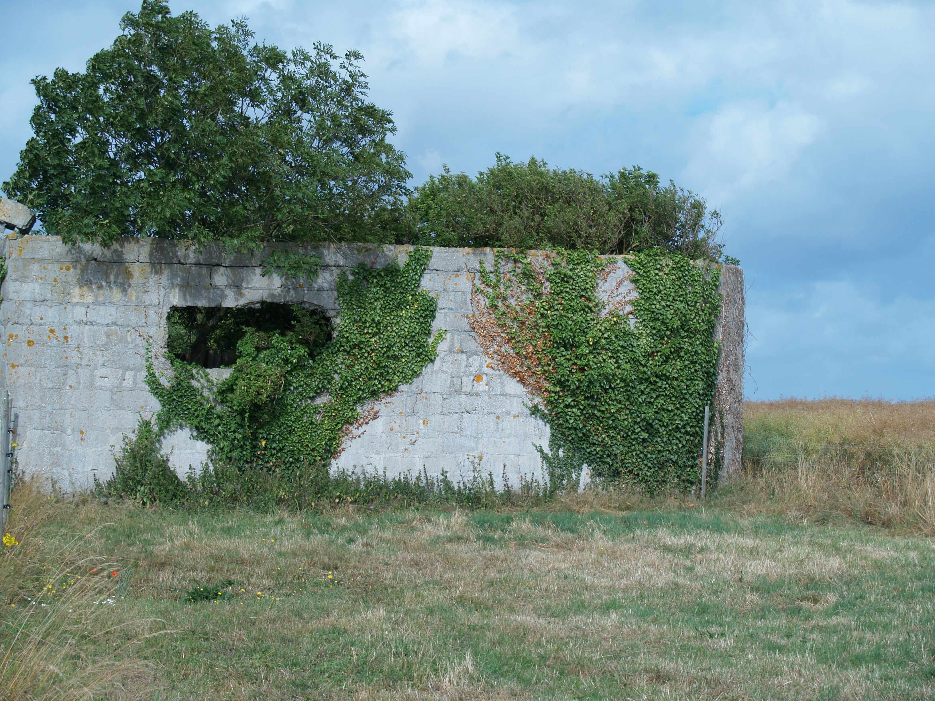 Fleury Battery